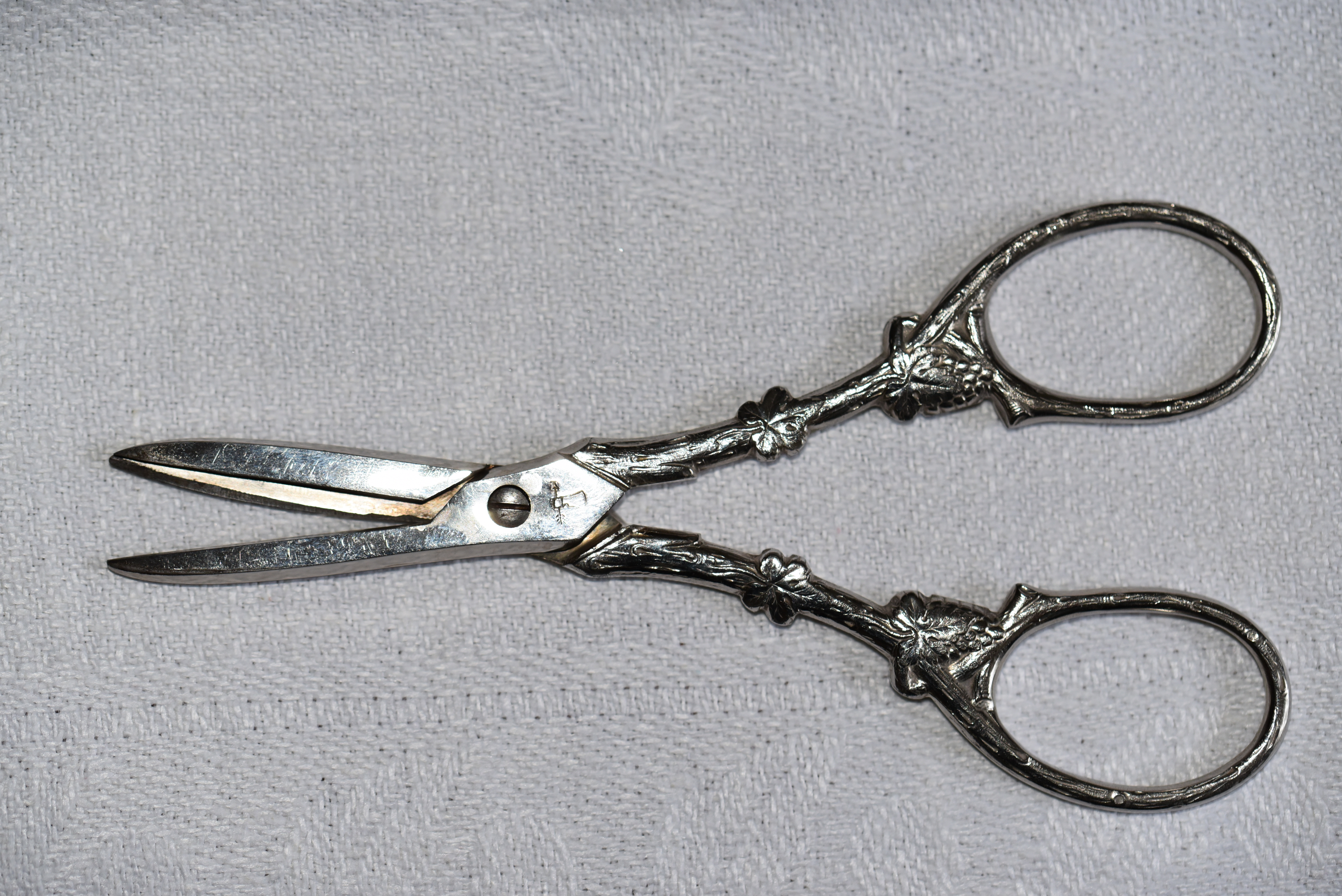 A pair of scissors for cutting grapes.